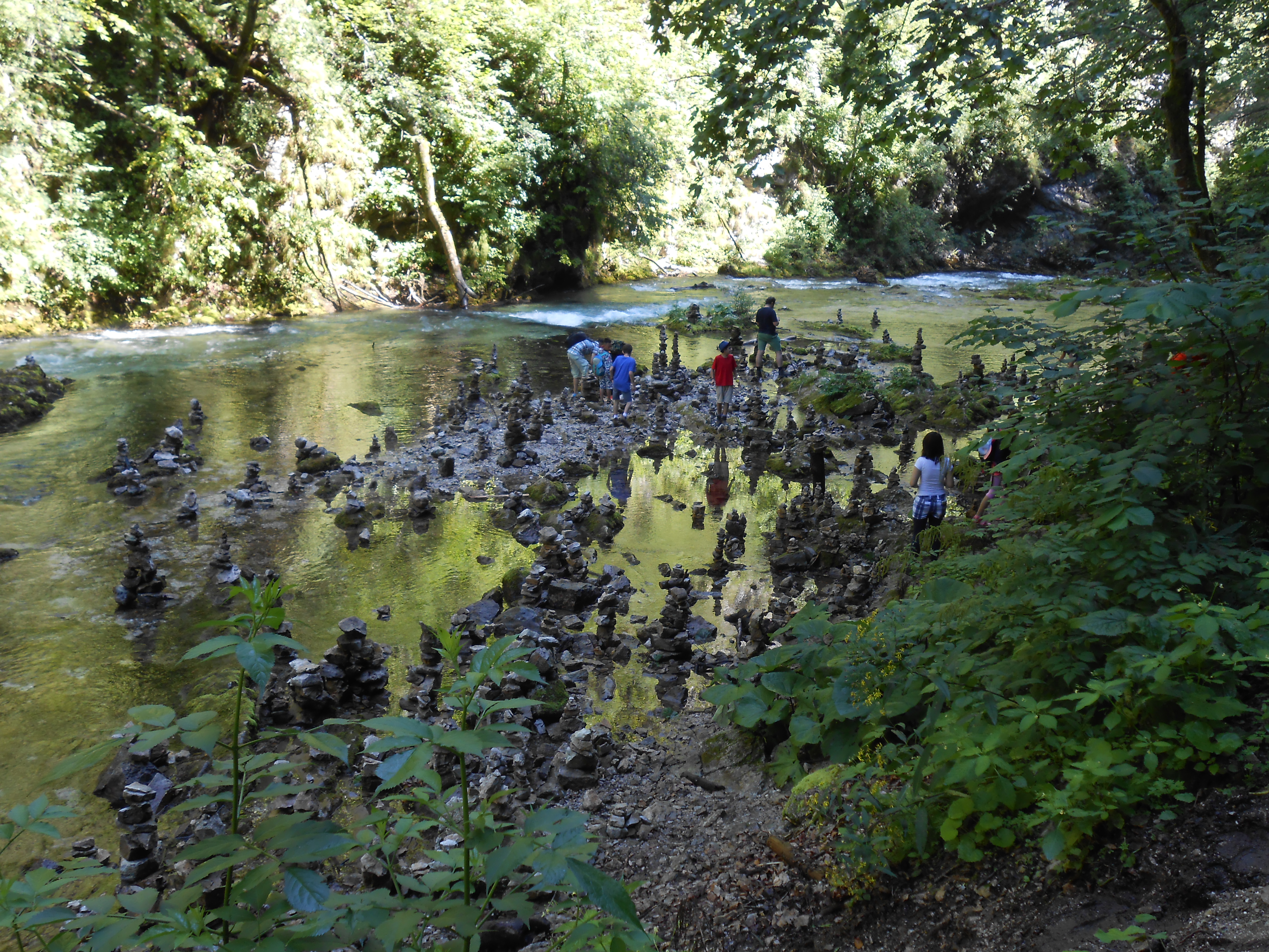 Vintgar, Radovna River Gorge, near Bled, Slovenia